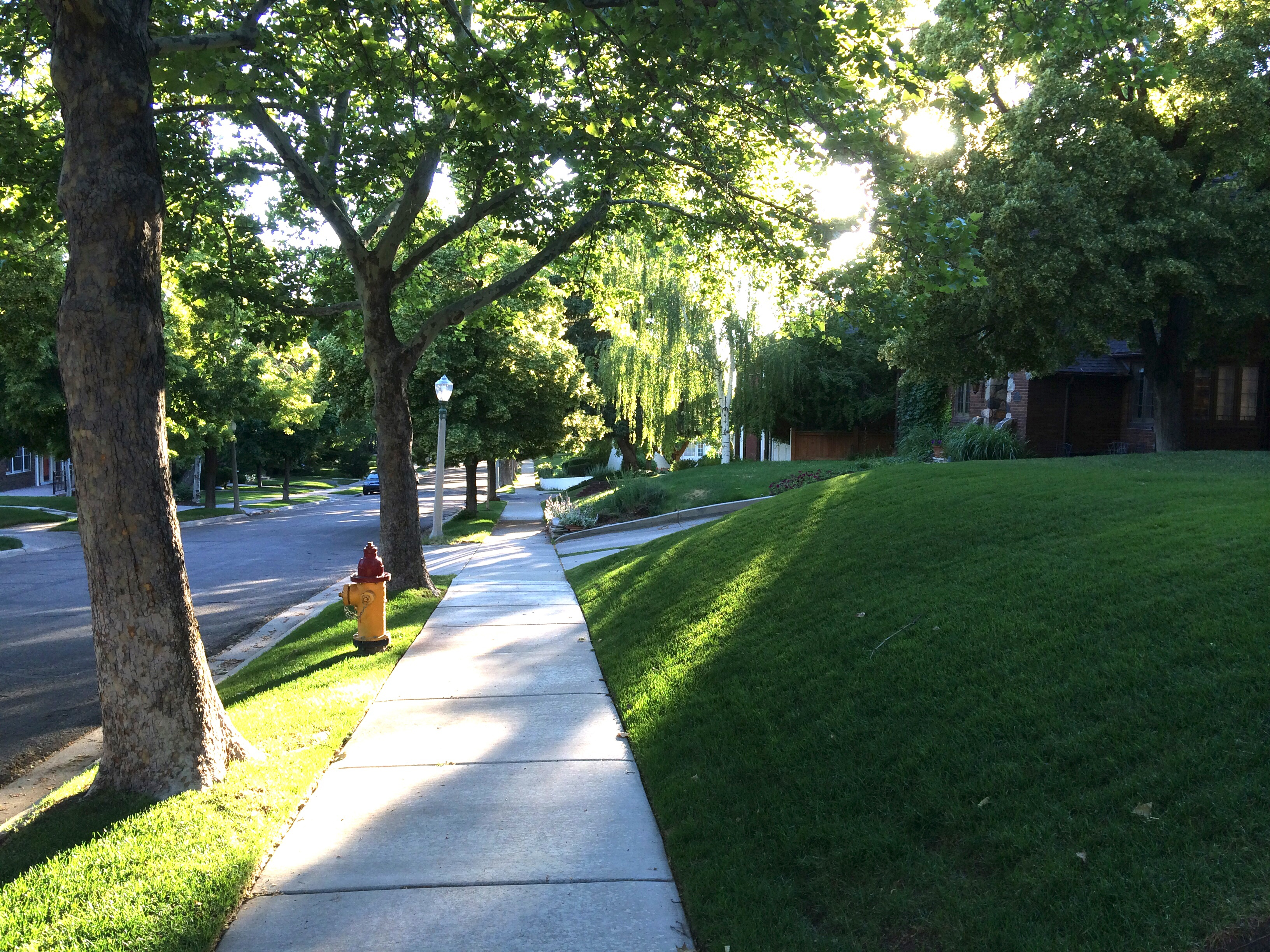 Yalecrest Laird Streetscape